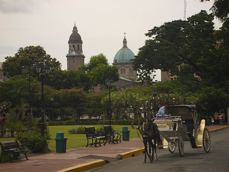 Intramuros, the Walled City by the Spaniards; originally the City of Manila.